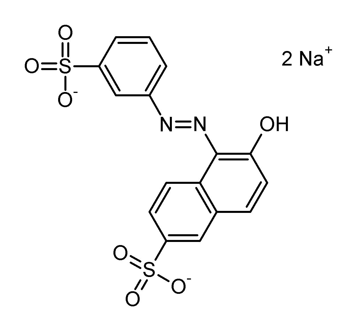 Description: Chemical structure of Orange GGN Author, date of creation: selfmade by Shaddack, 5 November 2005 Source: self-made Copyright: Public Domain (PD) Comments: b/w hires PNG; ChemDraw